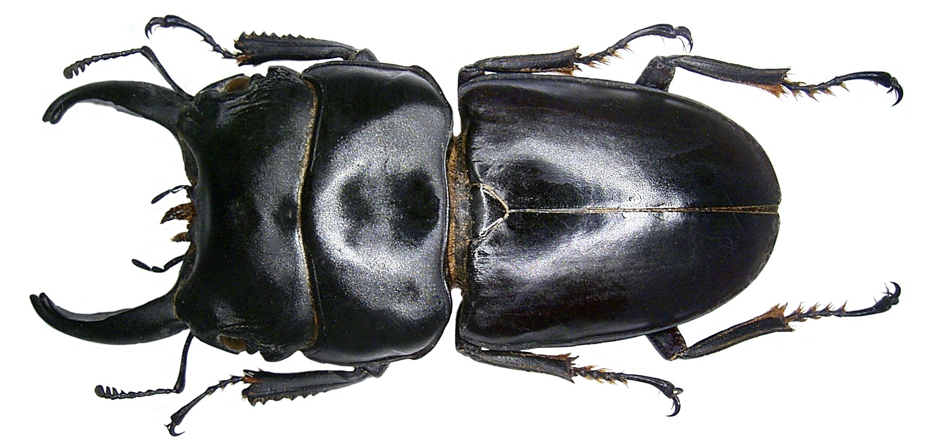 Family: Lucanidae Size: 20.5 to 59.4 mm Location: Indonesia, Irian Jaya, Manokwari leg.2007; det. A.Skale Photo: U.Schmidt, 2007